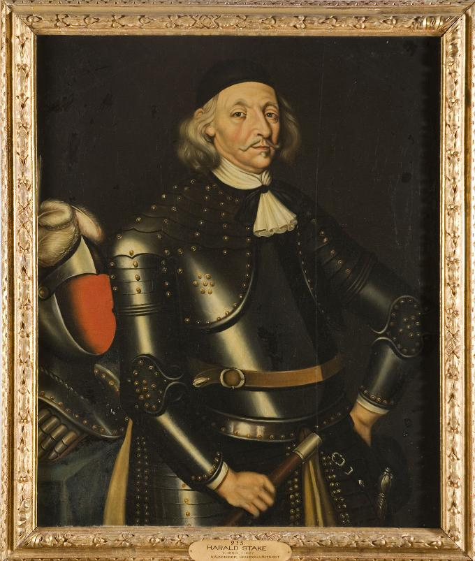 Painting by unknown artist of Harald Stake, 1598-1677. Nationalmuseum NMGrh 975